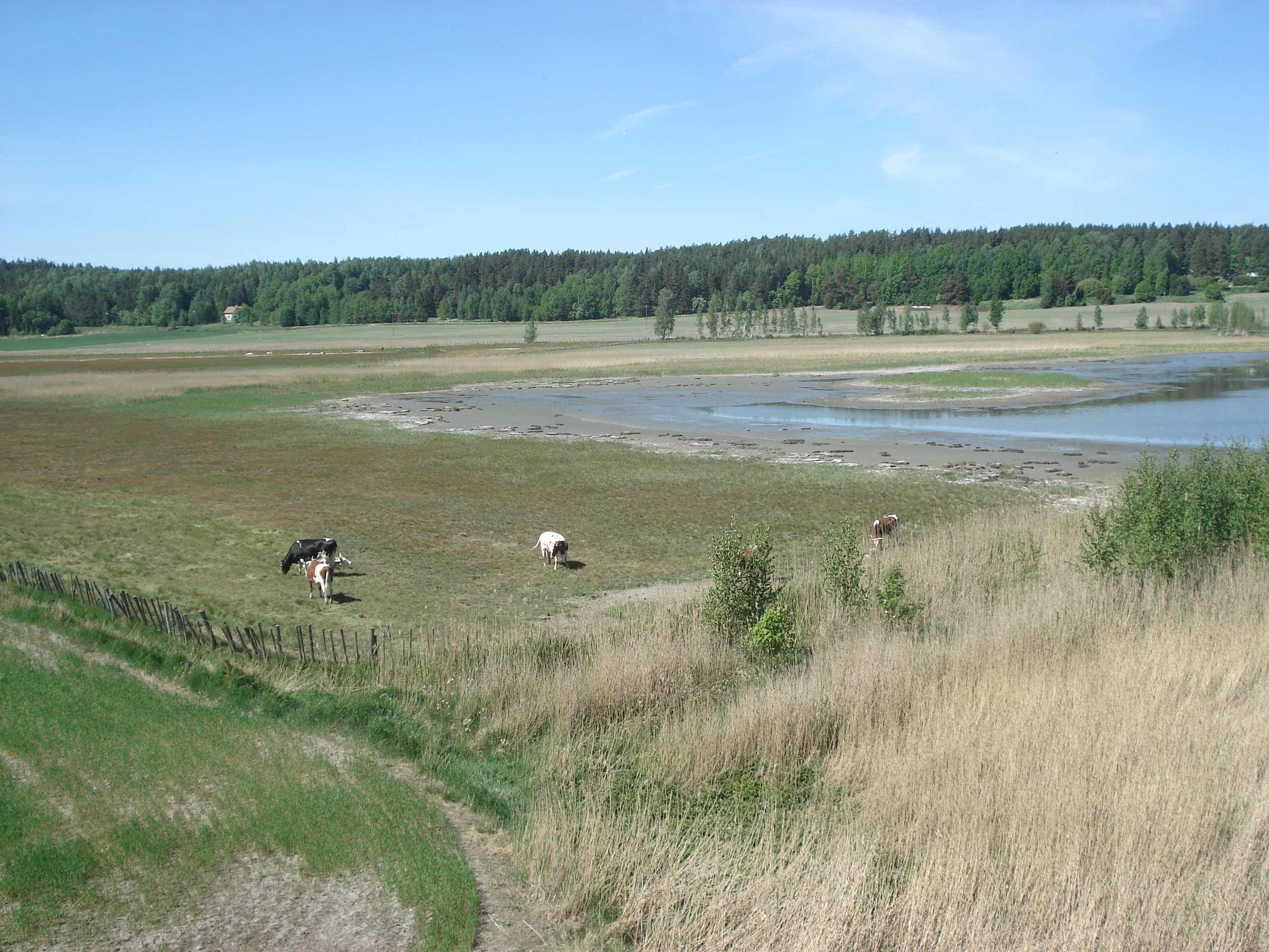 Kuusistonlahti at Kaarina, Finland.